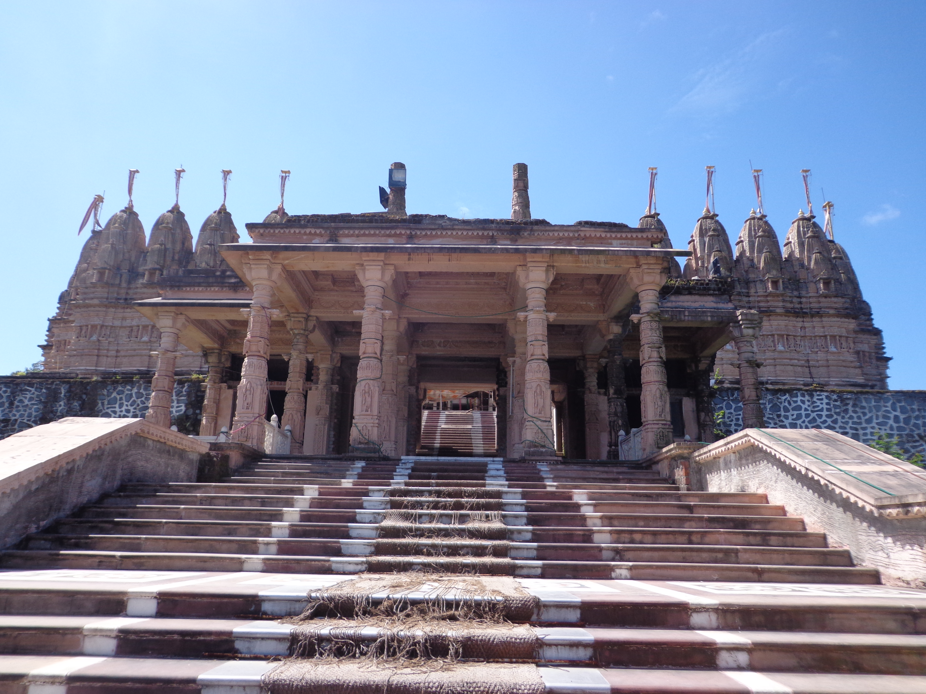 Old jain temple, bombay highway